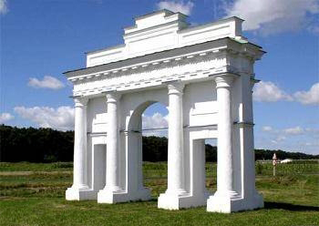 Triumphal Arch. The author of the project - the academician of architecture Luigi Rusca (1820). The estate of Prince Kochubey, Dykanka